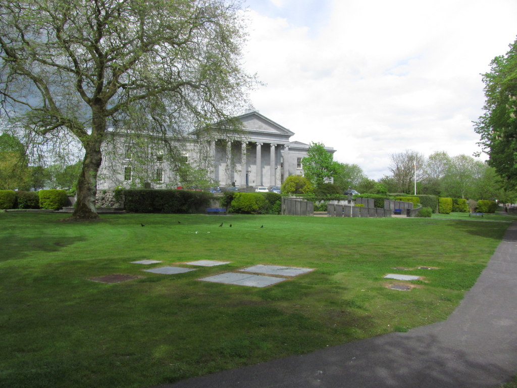 Ennis - The Court House